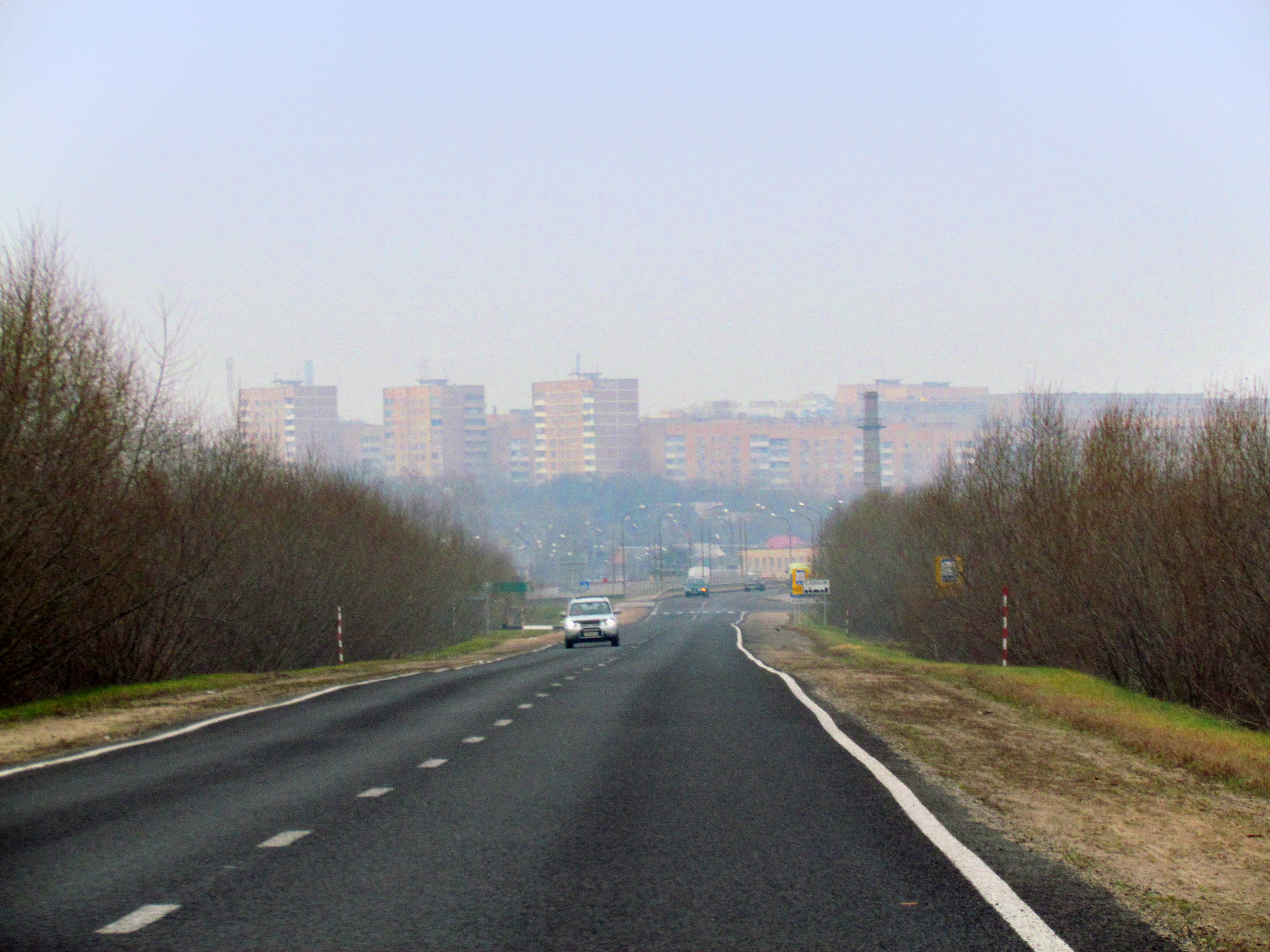 First view of the town through from the road from Branavichy.